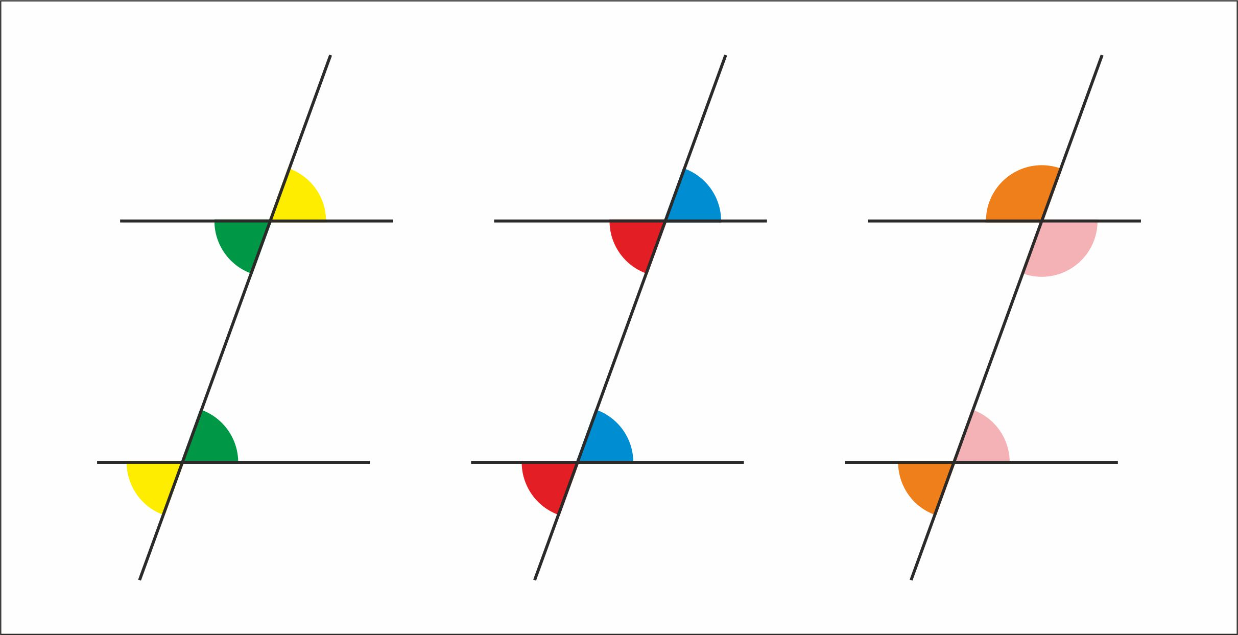 Three kinds of pairs of angles created by two parallel lines and a transversal.